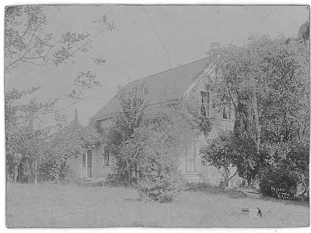 The J.J. McGilvra home, known as 'Laurel Shade,' built on Lake Washington. Before the extension of Madison Street, it was the landing and shipping place for that neighborhood . Caption on image: Peiser. Seattle. 8/2/00 . Handwritten on verso: The McGilvra homestead on the west shore Lake Wash . Peiser 10090 Subjects (LCTGM): McGilvra, John J. (John Jay), 1827-1903--Homes & haunts--Washington (State)--Seattle; Dwellings--Washington (State)--Seattle Madison Park itself was later developed on 24 acres of land on the Laurelshade estate owned by Judge John J. McGilvra.